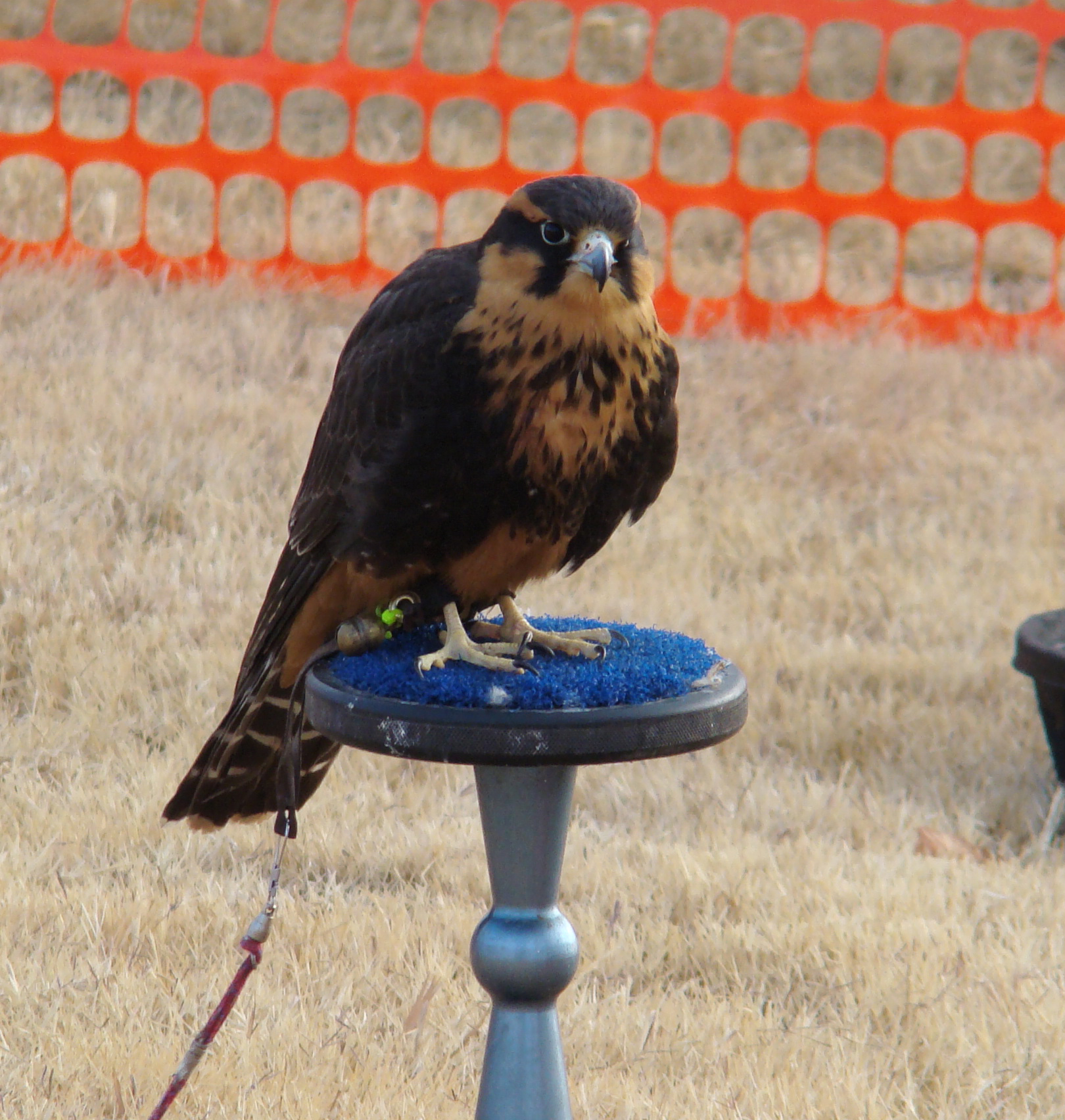 Aplomado Falcon used in falconry.